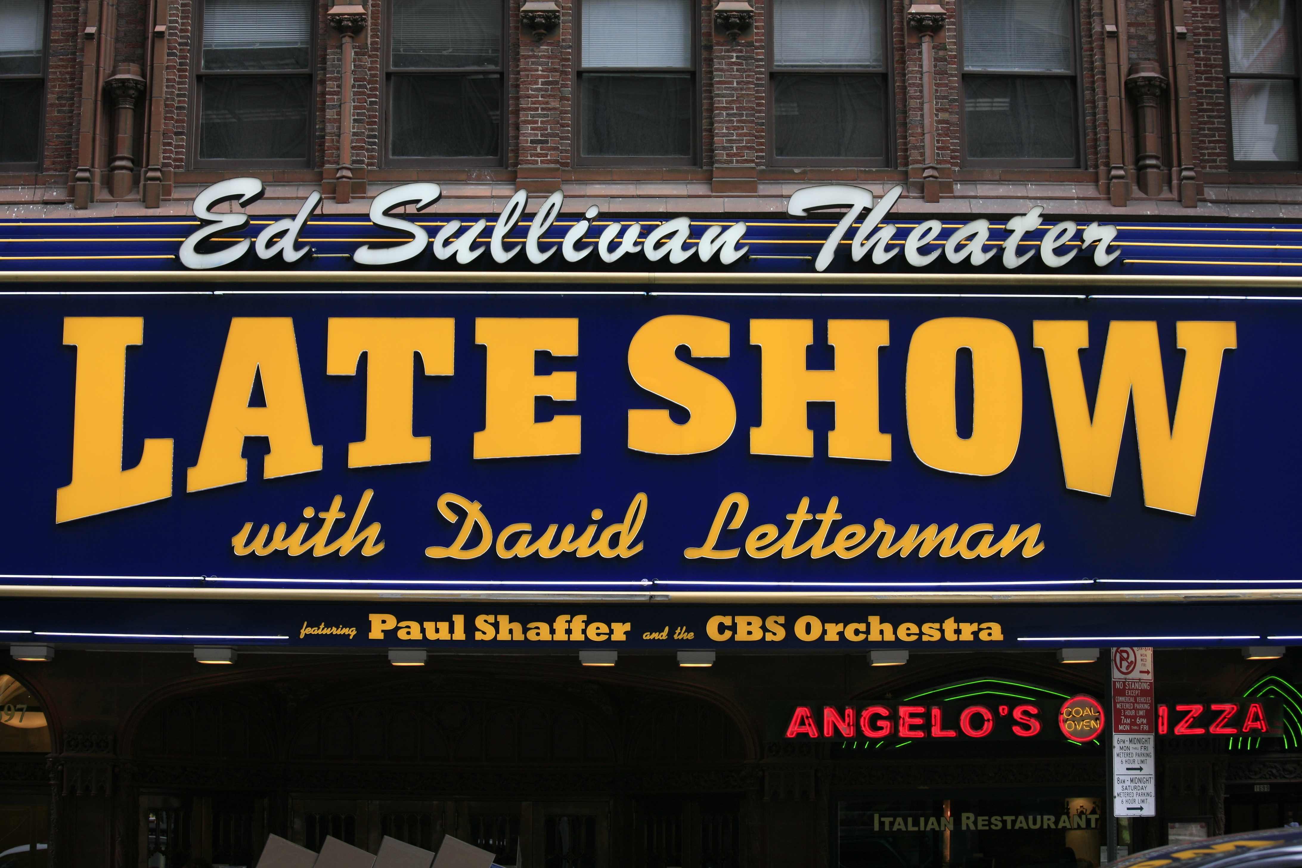 Ed Sullivan Theater, David Letterman